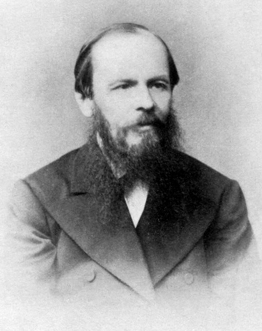 Fyodor Dostoyevsky in 1876.